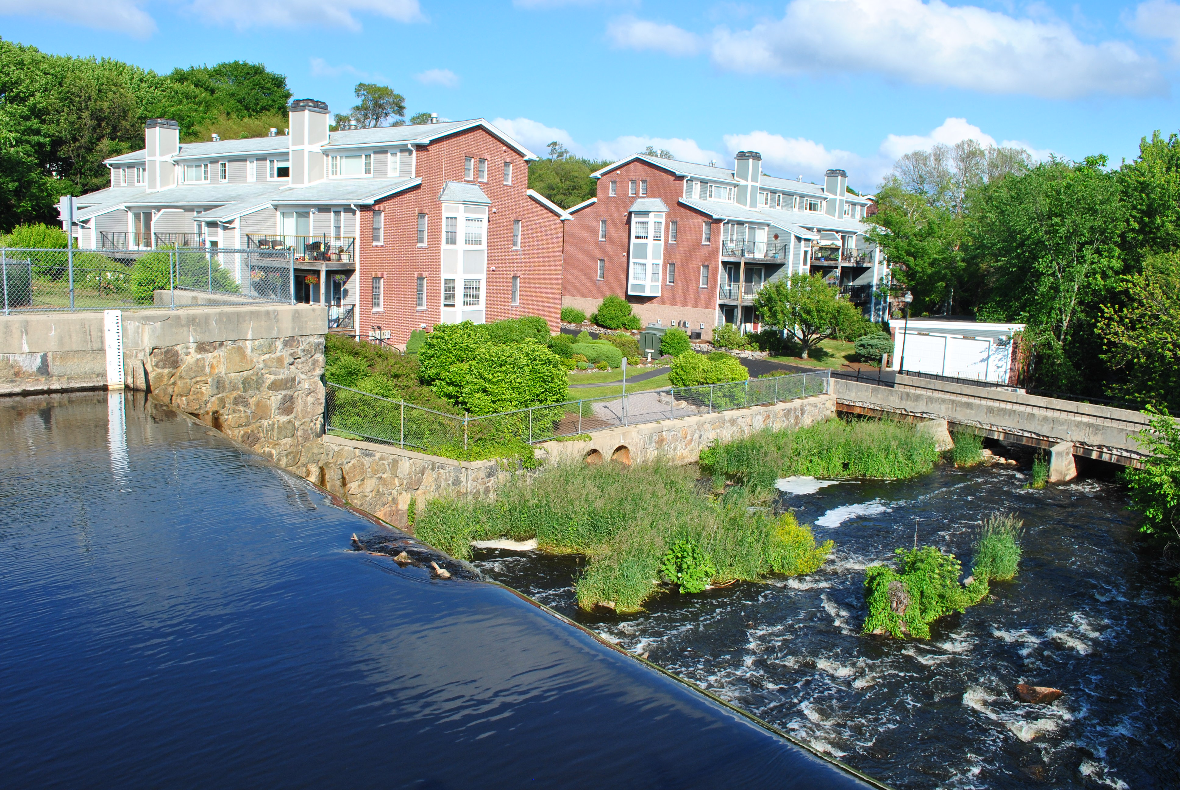 Centennial Dam and the Stone Mill Condos as seen from the Milton Street side.